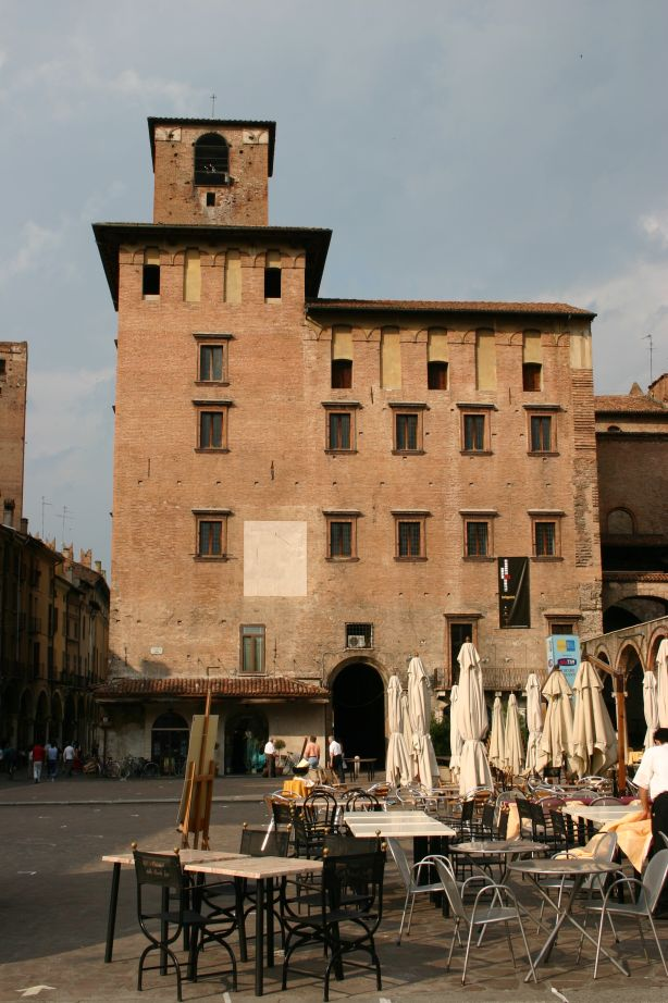 Mantova, Italy, Palazzo del Podestà a Mantova.